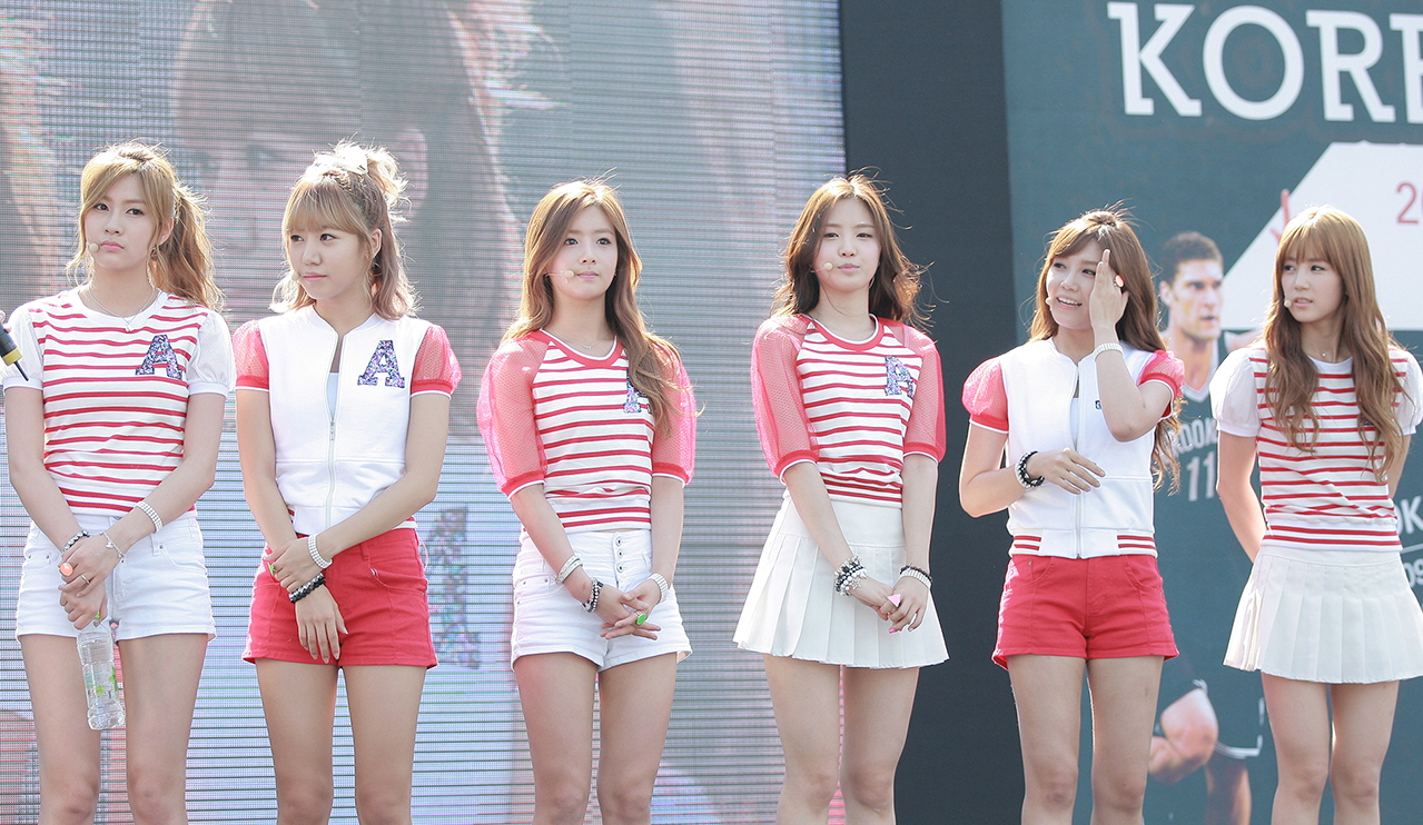 Apink at the NBA 3X Korea event, Yeoeuido park, Seoul, in August 2013. Left to right: Hayoung, Namjoo, Bomi, Naeun, Eunji and Chorong.